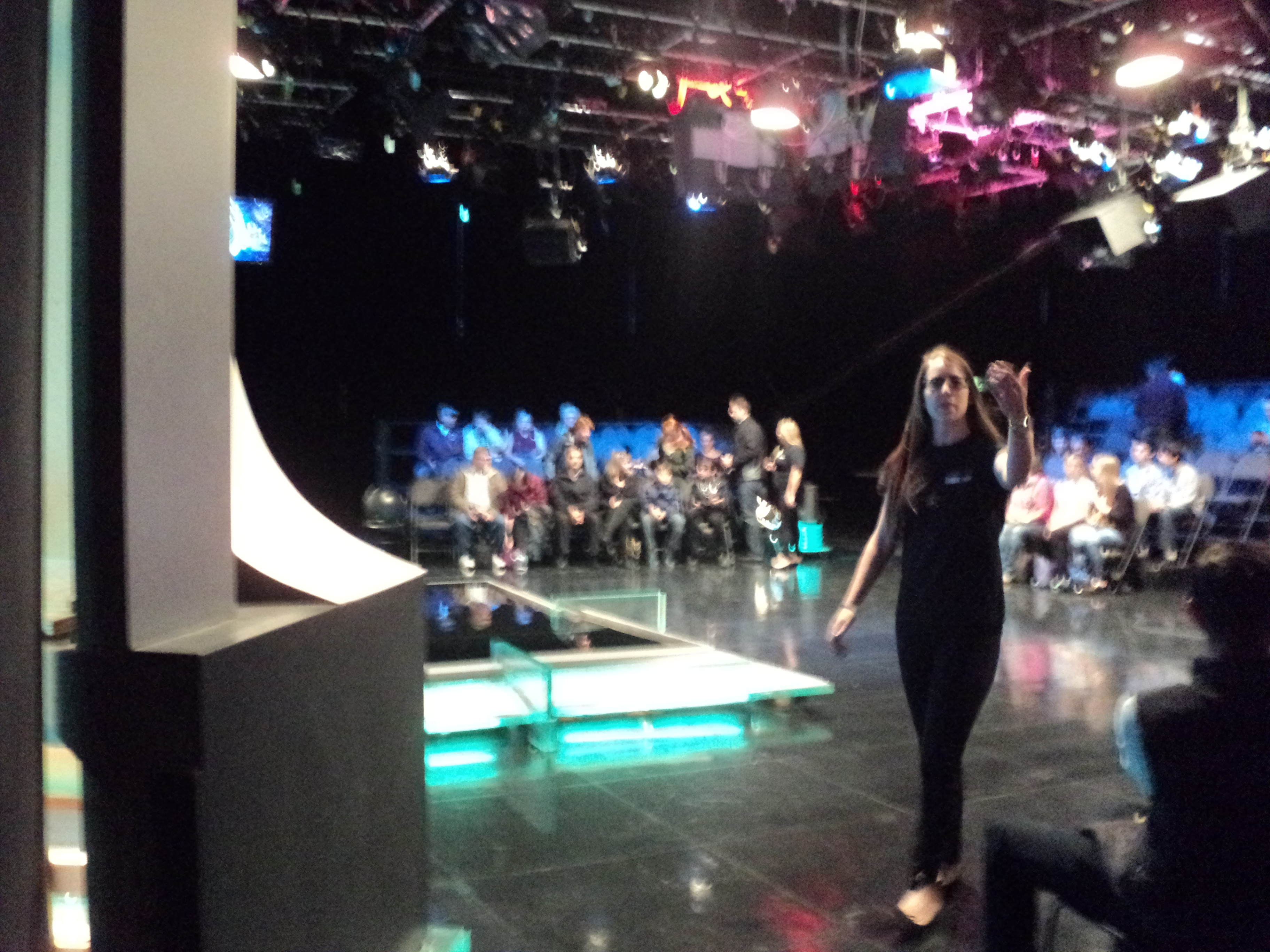 Stagehand welcoming the audience to the set of the Rick Mercer Report.